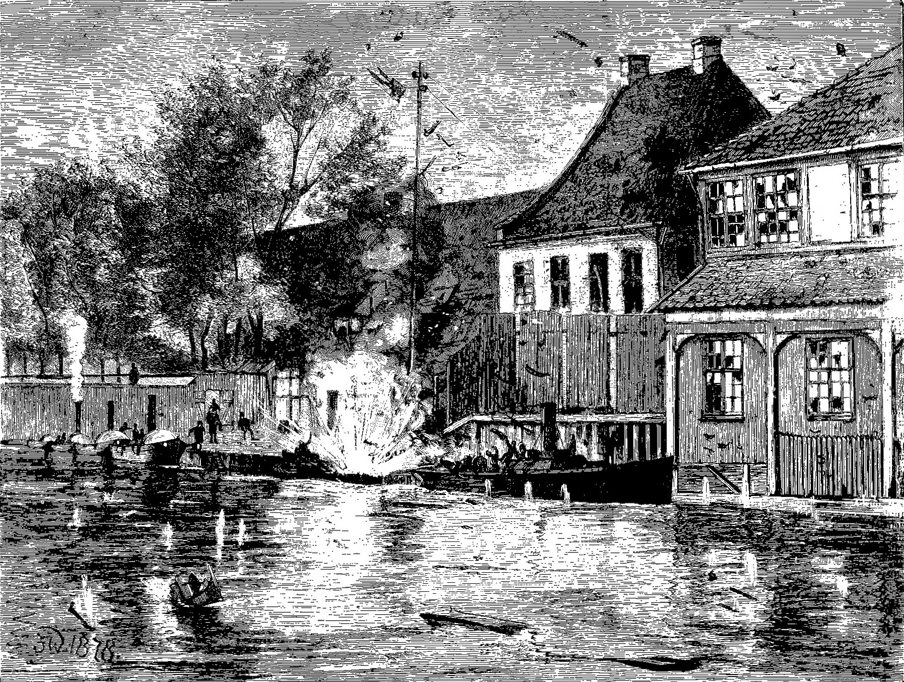 The explosion of a spar torpedo on September 30, 1878 in Copenhagen killed a man and caused some damage to early Danish torpedo boats. The incident was featured in the October 6 issue of the weekly Illustreret Tidende of Copenhagen. The boat to the right of the explosion is Dampchalup Nr. 5.